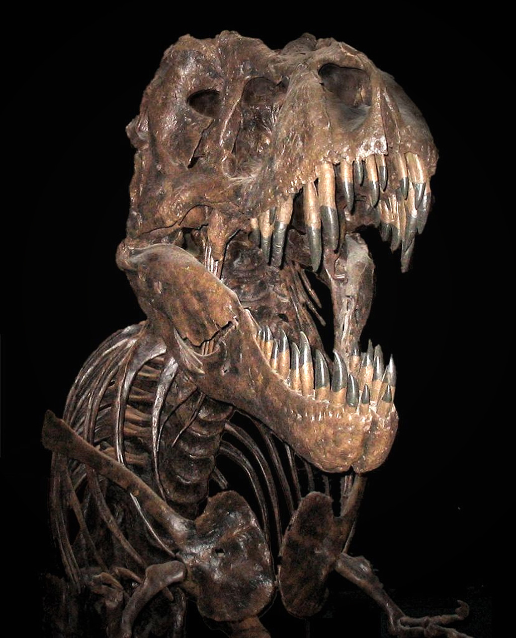 Tyrannosaurus rex skeleton at the Smithsonian Museum of Natural History.